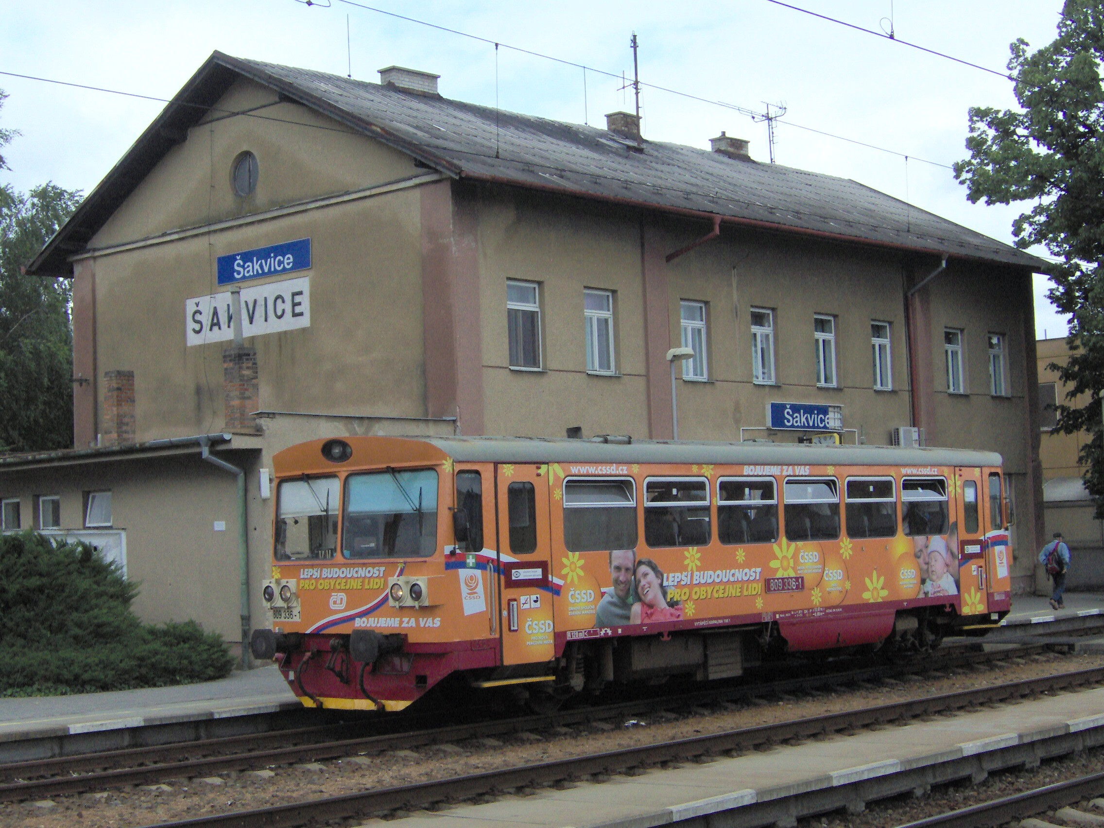 Diesel multiple unit 809.336, Šakvice, Czech Republic